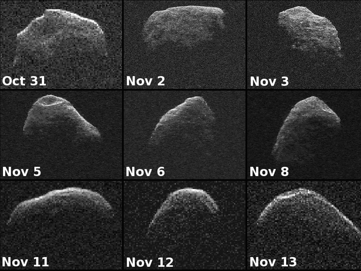 Nine Views of Asteroid PA8